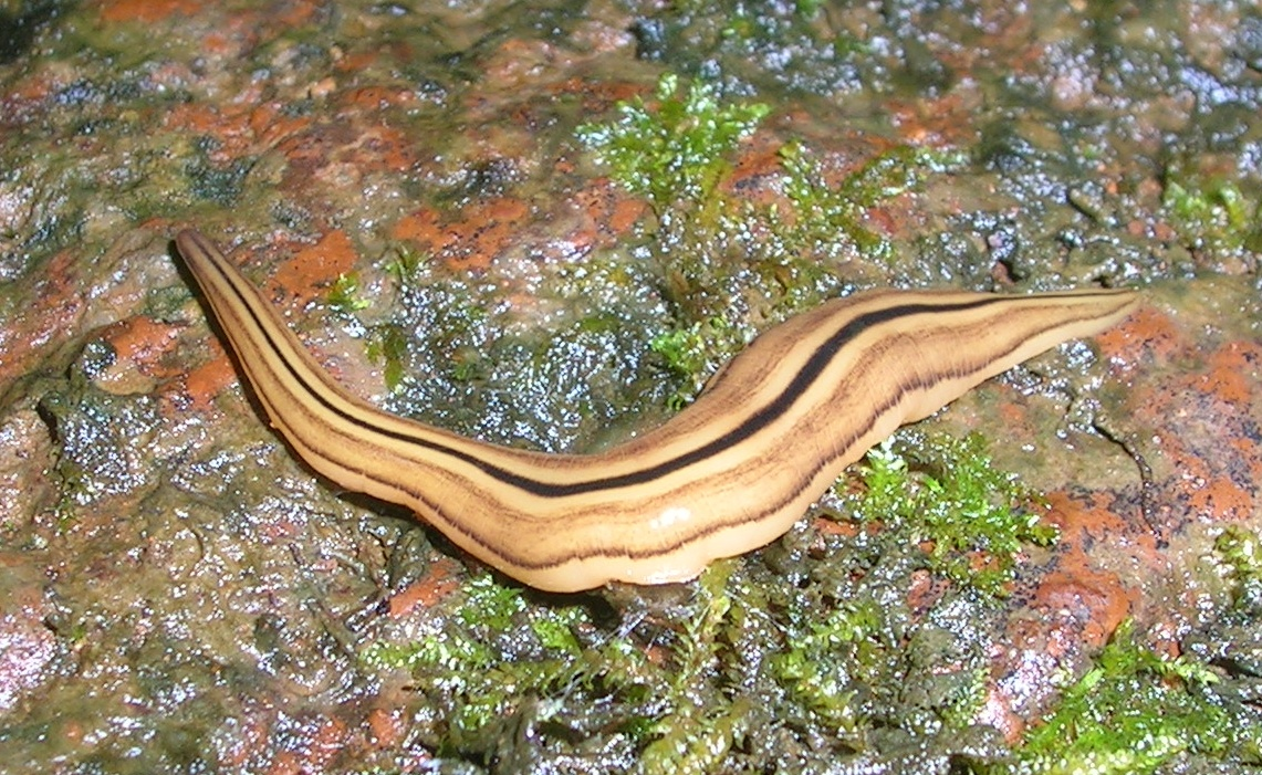 A land turbellarian from Wayanad, Kerala, India